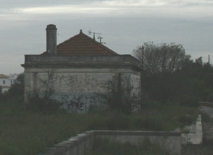 Passenger depot of the old Alvor Halt.